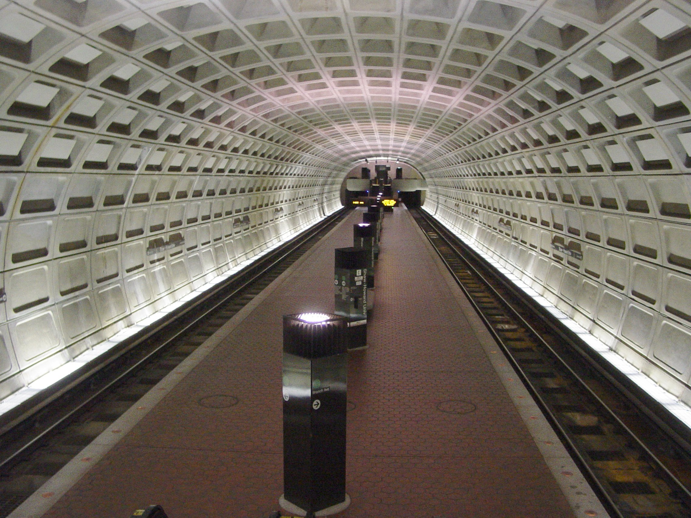 Shaw-Howard Univ station